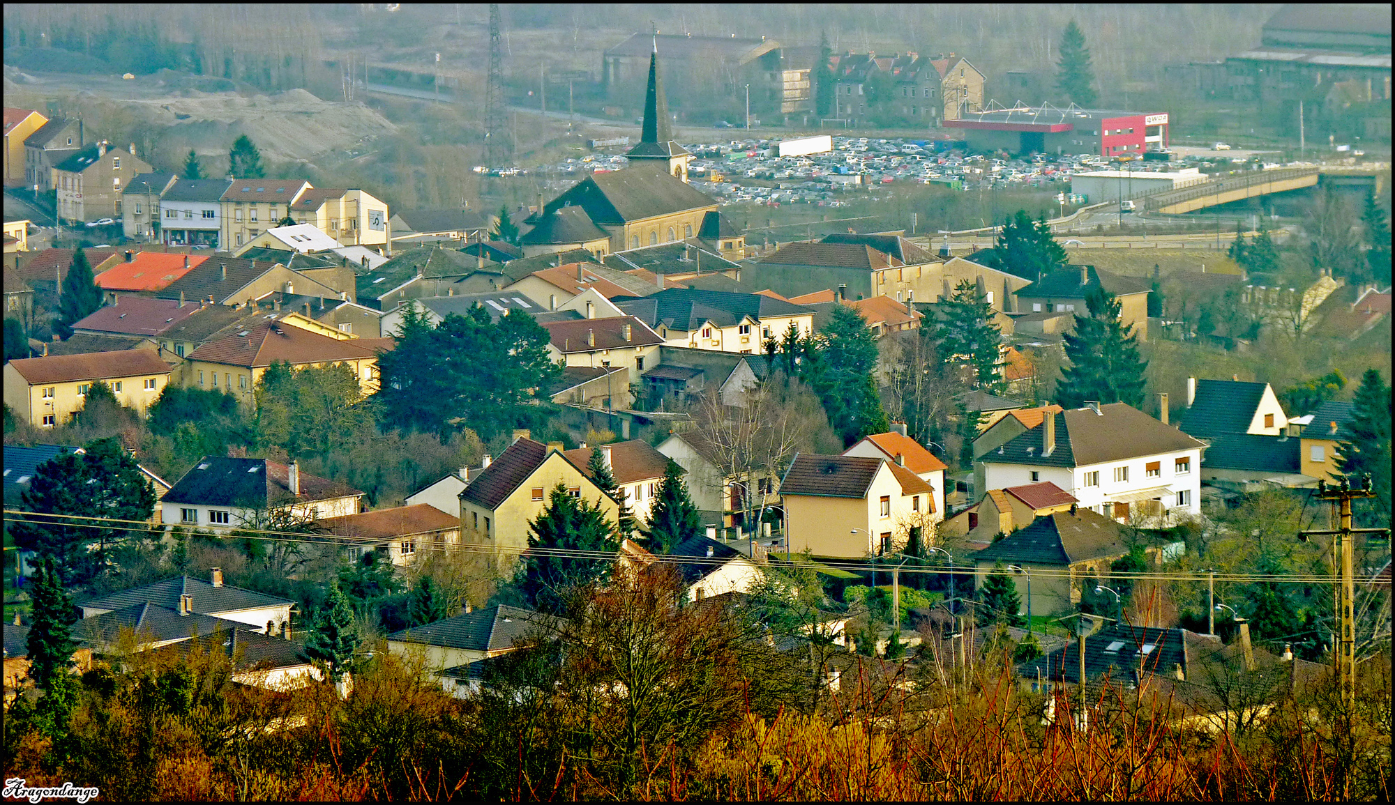 Vitry-sur-Orne, vue d'ensemble Ladino: Vitry-sur-Orne, vue d'ensemble